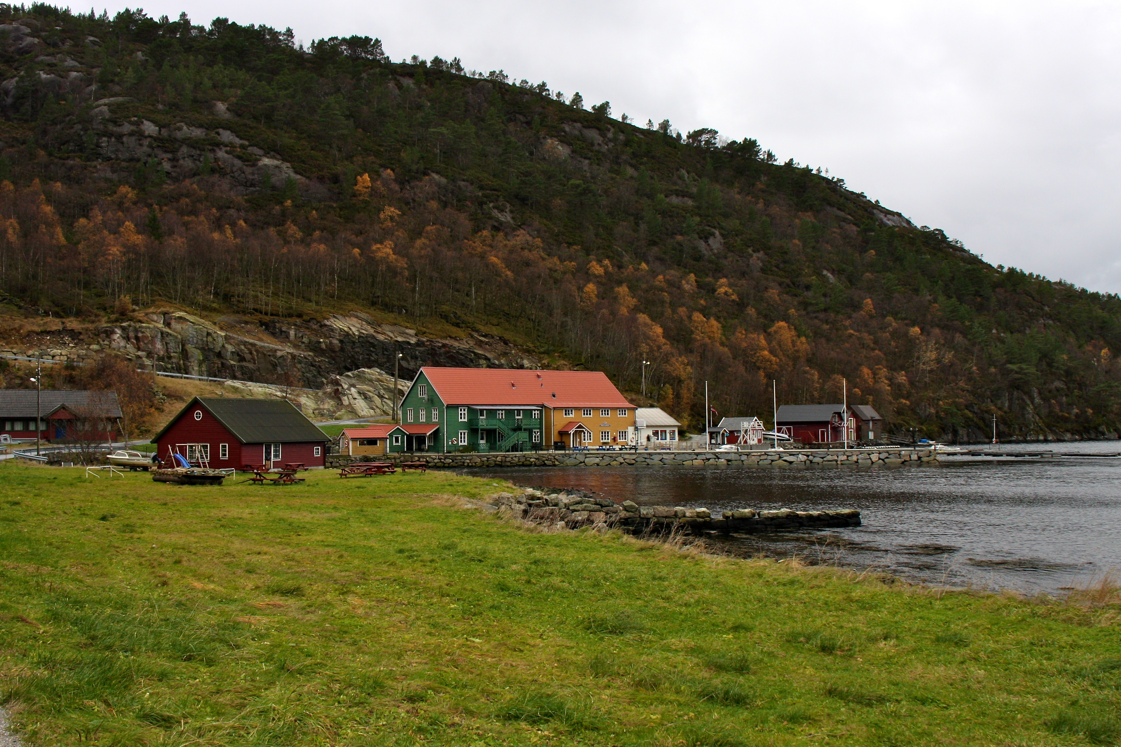 Gulen municipality, Norway.